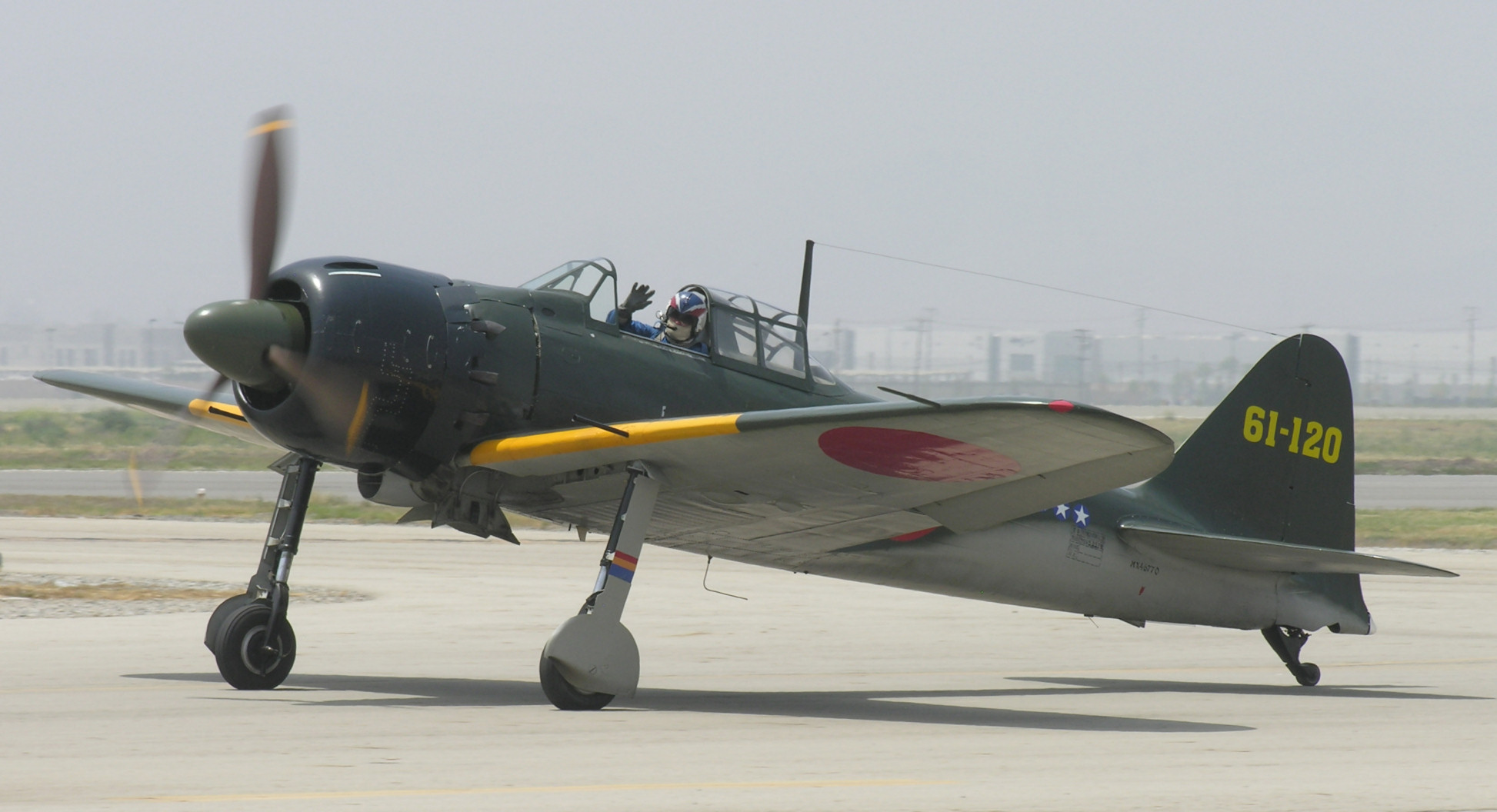 Mitsubishi A6M Zero, Chino, California